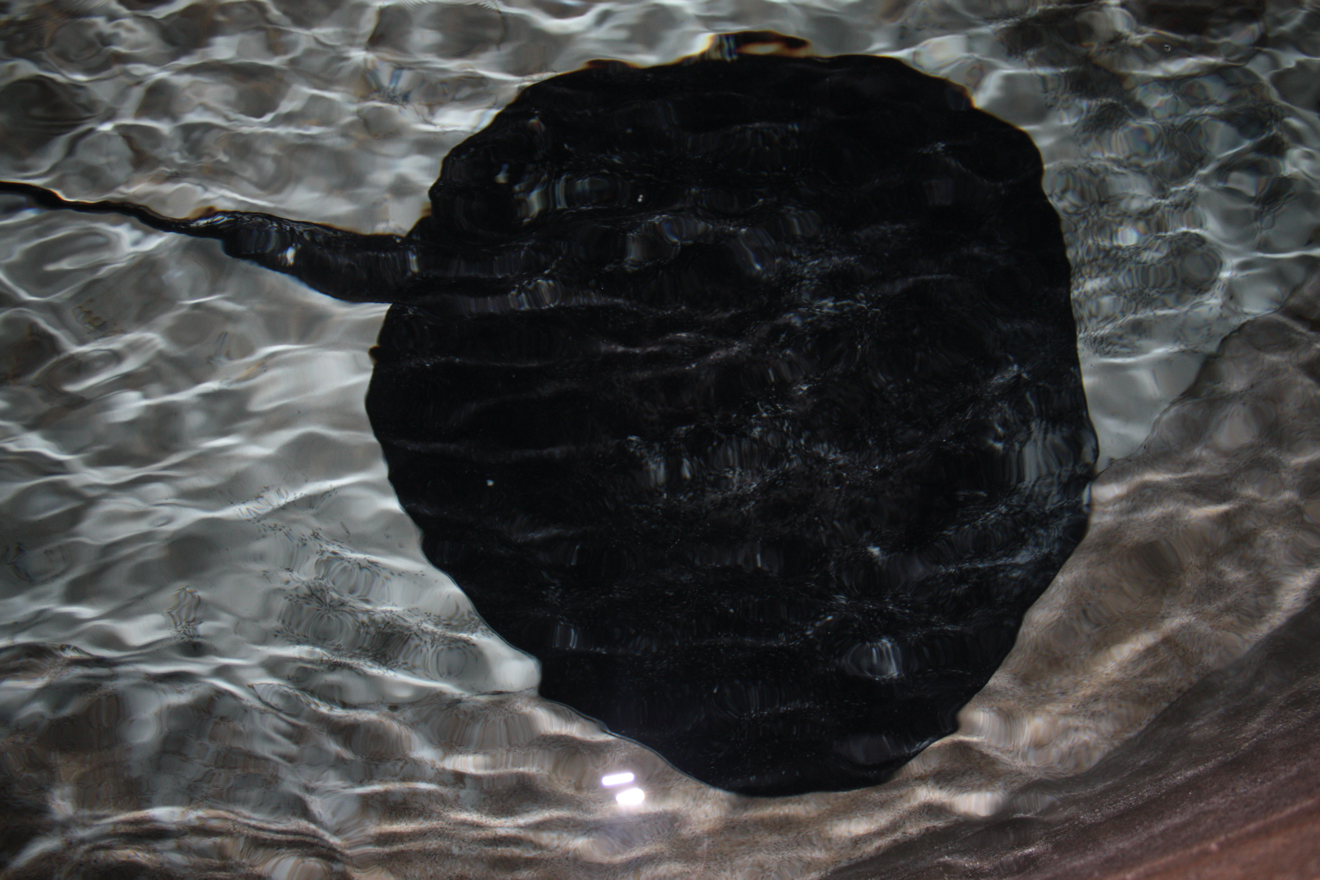 Stingray in the St. Petersburg Oceanarium